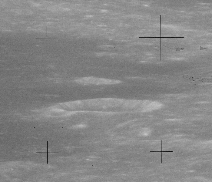 Oblique view of Bowen crater, on the moon, facing west-northwest.